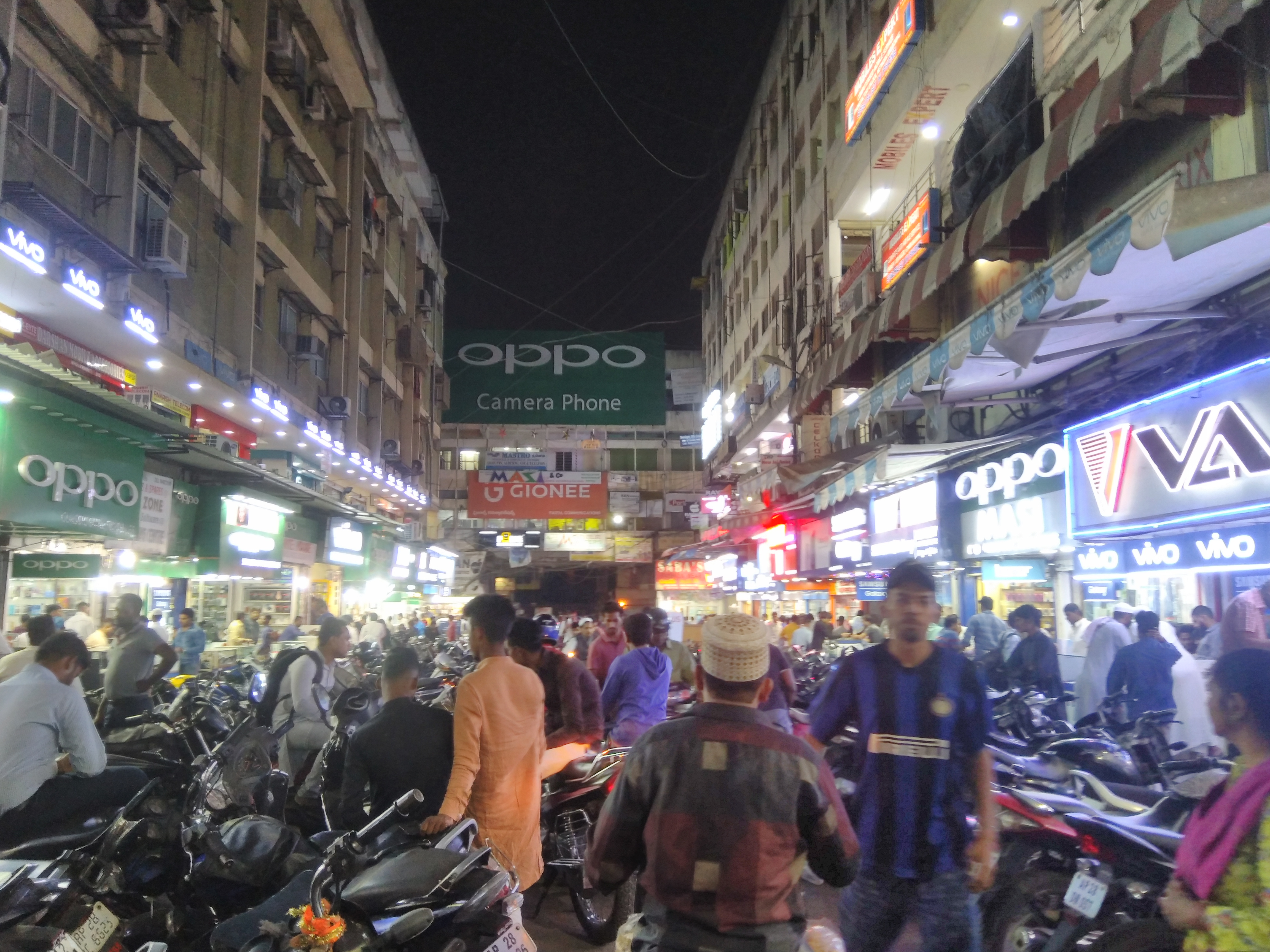 Picture of the various shops at the main area of the famous Jagdish market, a bustling grey market for mobiles and electronics.